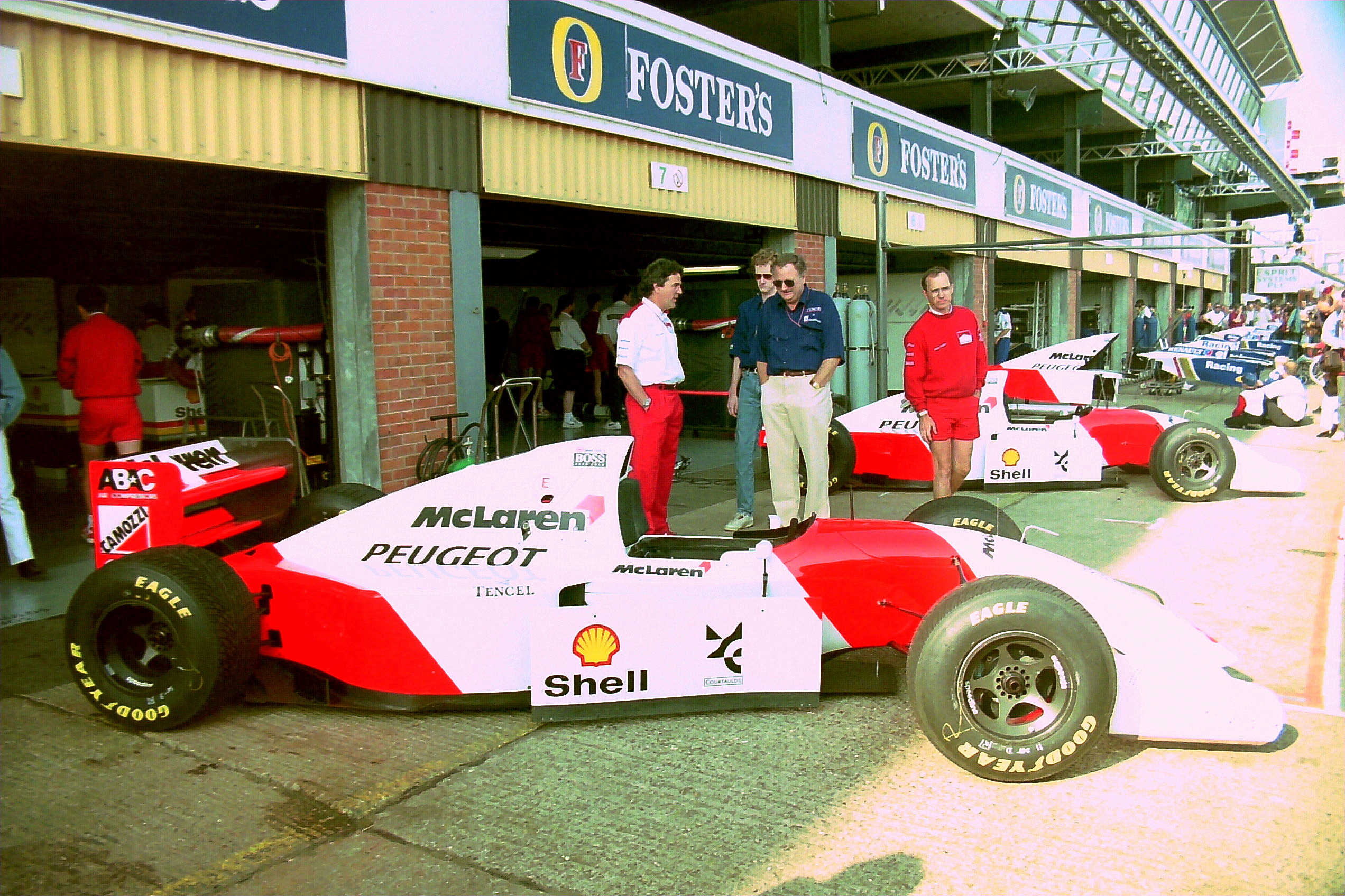 Mclaren MP4-9 at the 1994 British Grand Prix